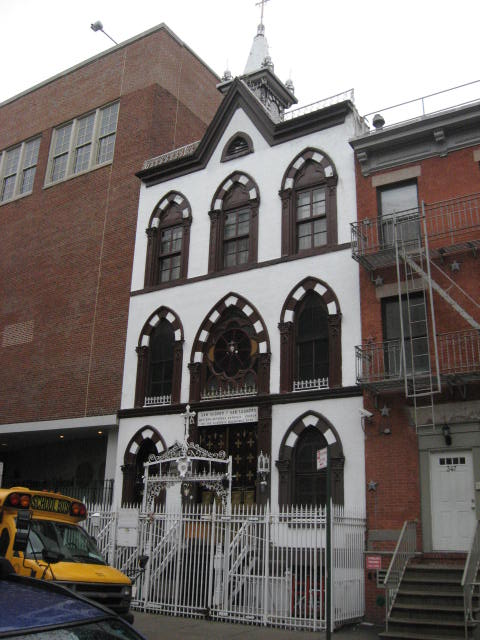 Saint Isidoro and Saint Leandro Church, Lower East Side, New York. It belongs to the Orthodox Synod of Milan and uses Mozarabic liturgy. Address: 345 E 4th St, New York, NY 10009, USA